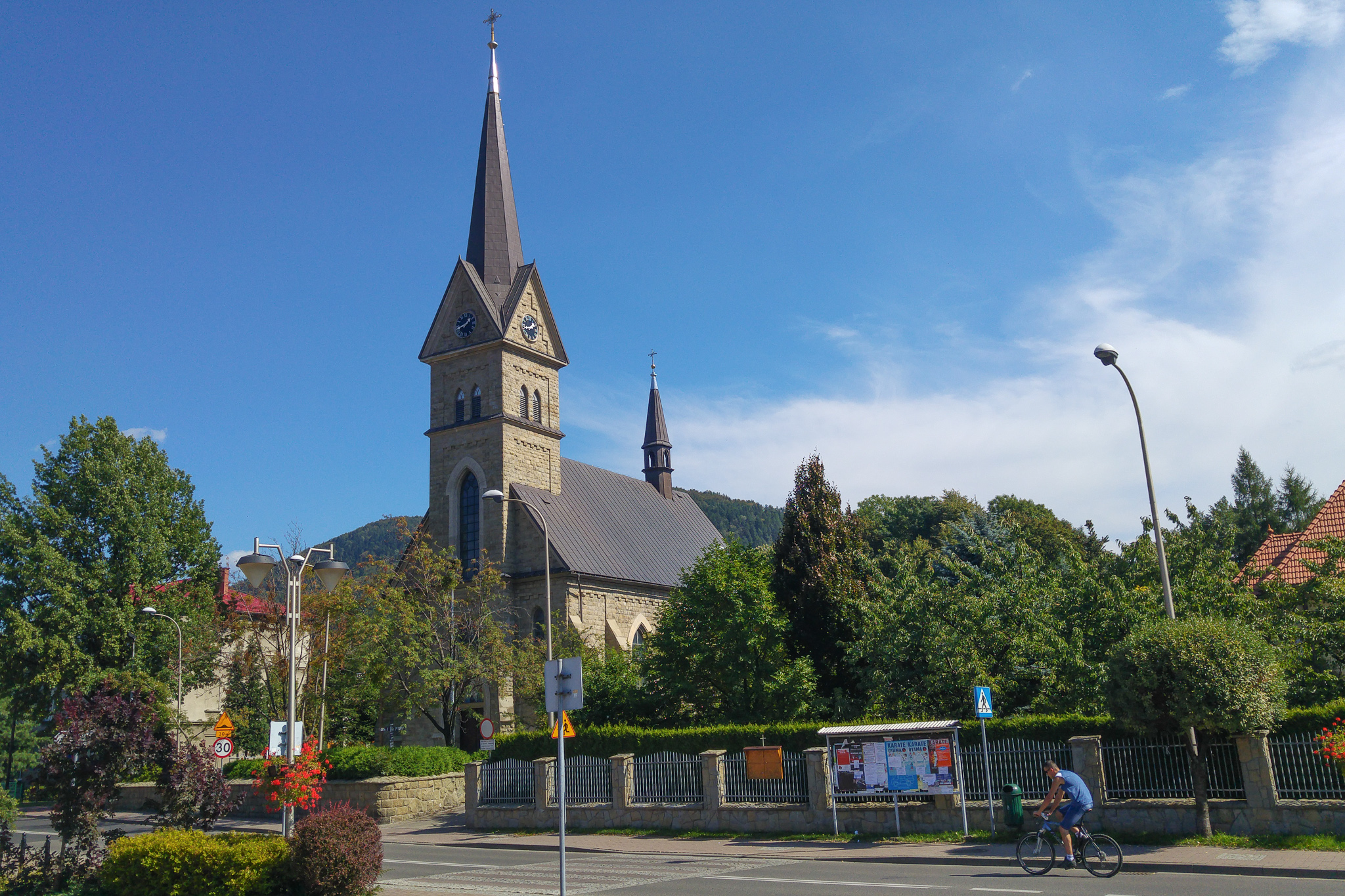 Porąbka, Bielsko district, the center of the village, view of the church